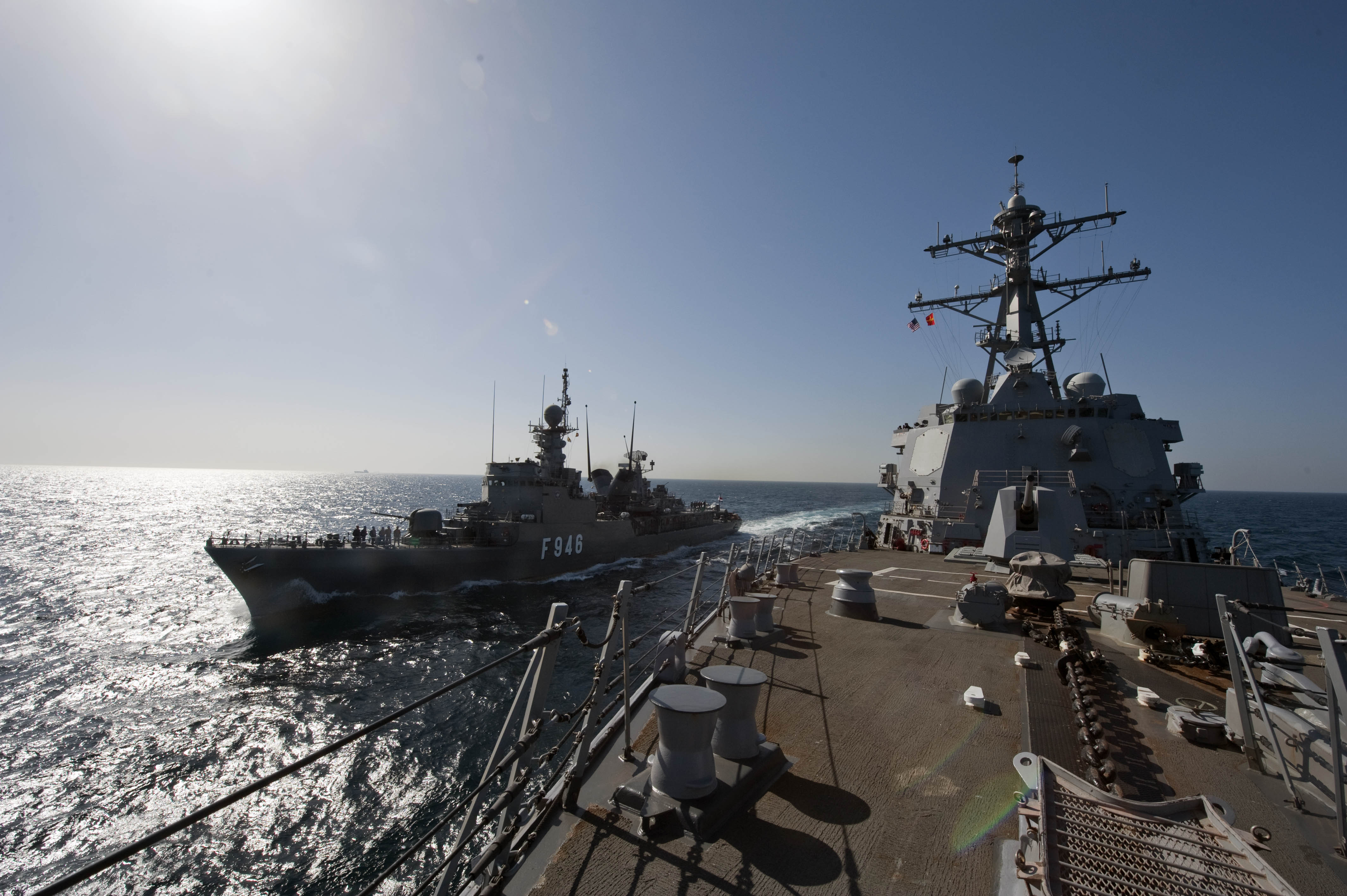 RED SEA (April 6, 2012) The guided-missile destroyer USS Nitze (DDG 94) transits alongside the Egyptian navy corvette El Suez (F941) during a passing exercise. Nitze is deployed to the U.S. 5th Fleet area of responsibility conducting maritime security operations, theater security cooperation efforts and support missions for Operation Enduring Freedom. (U.S. Navy photo by Mass Communication Specialist 3rd Class Jeff Atherton/Released) 120406-N-AP176-042 Join the conversation navylive.dodlive.mil